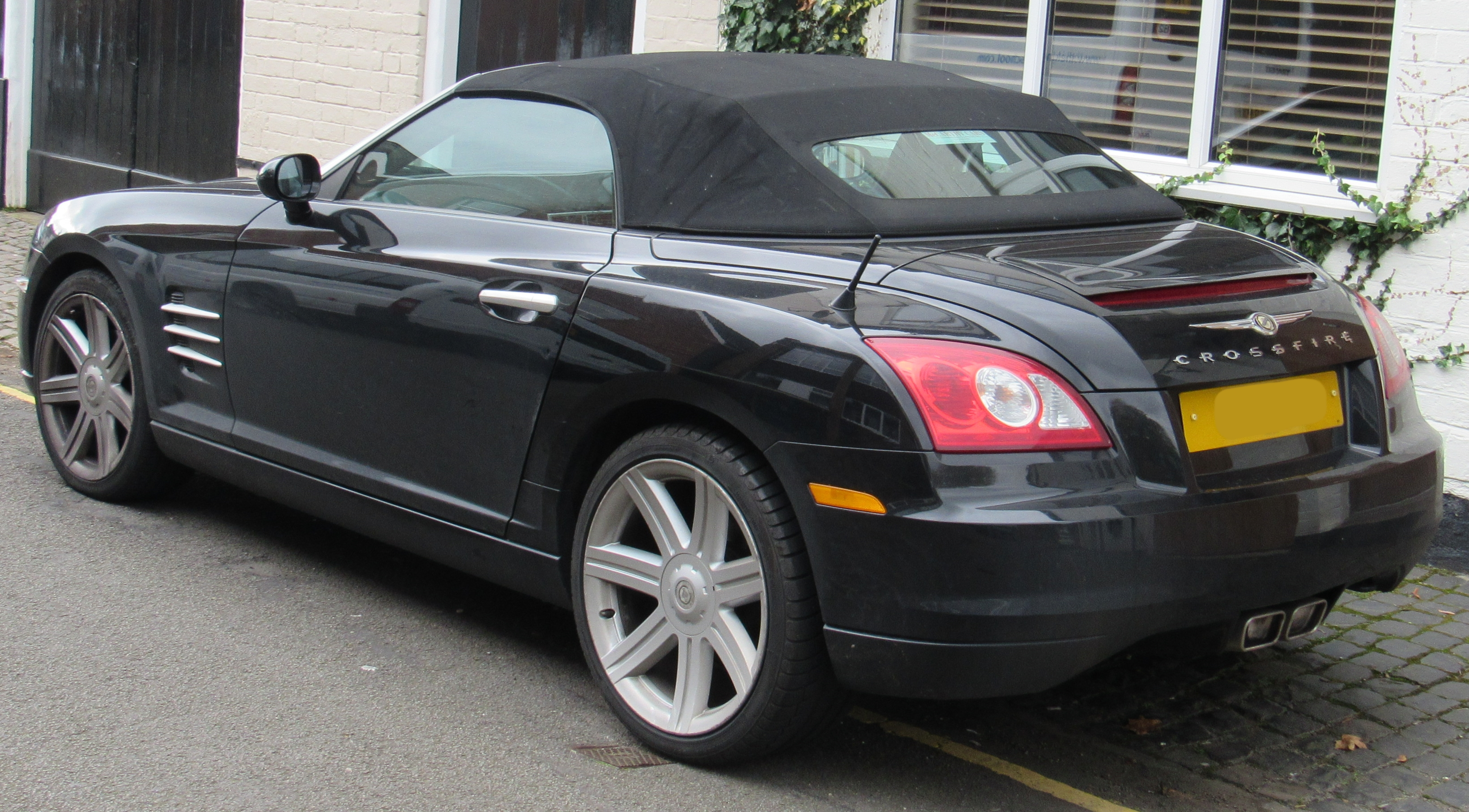 2005 Chrysler Crossfire Automatic 3.2 Rear Taken in Leamington Spa